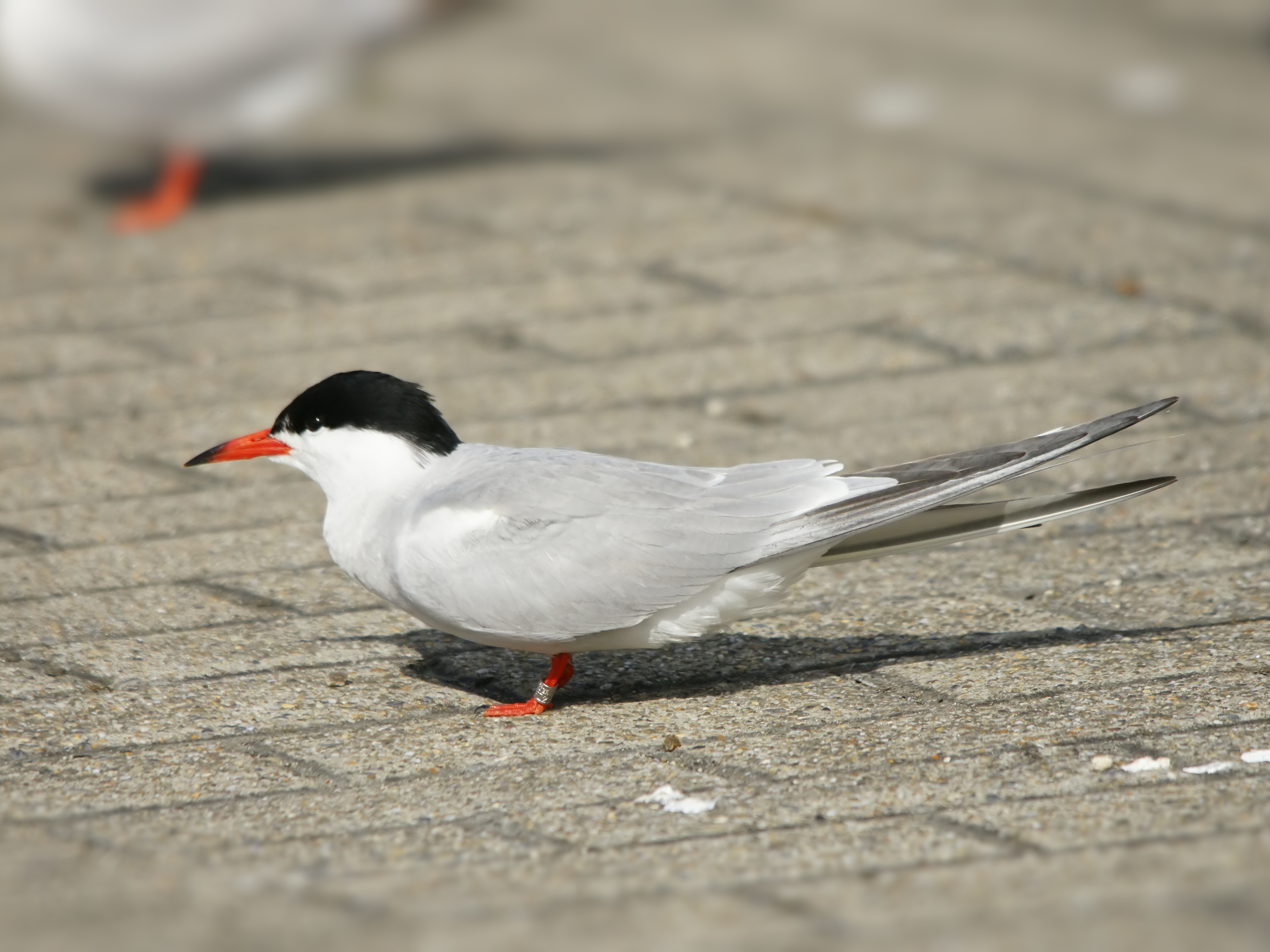 Common tern at the port of Oostende, Belgium